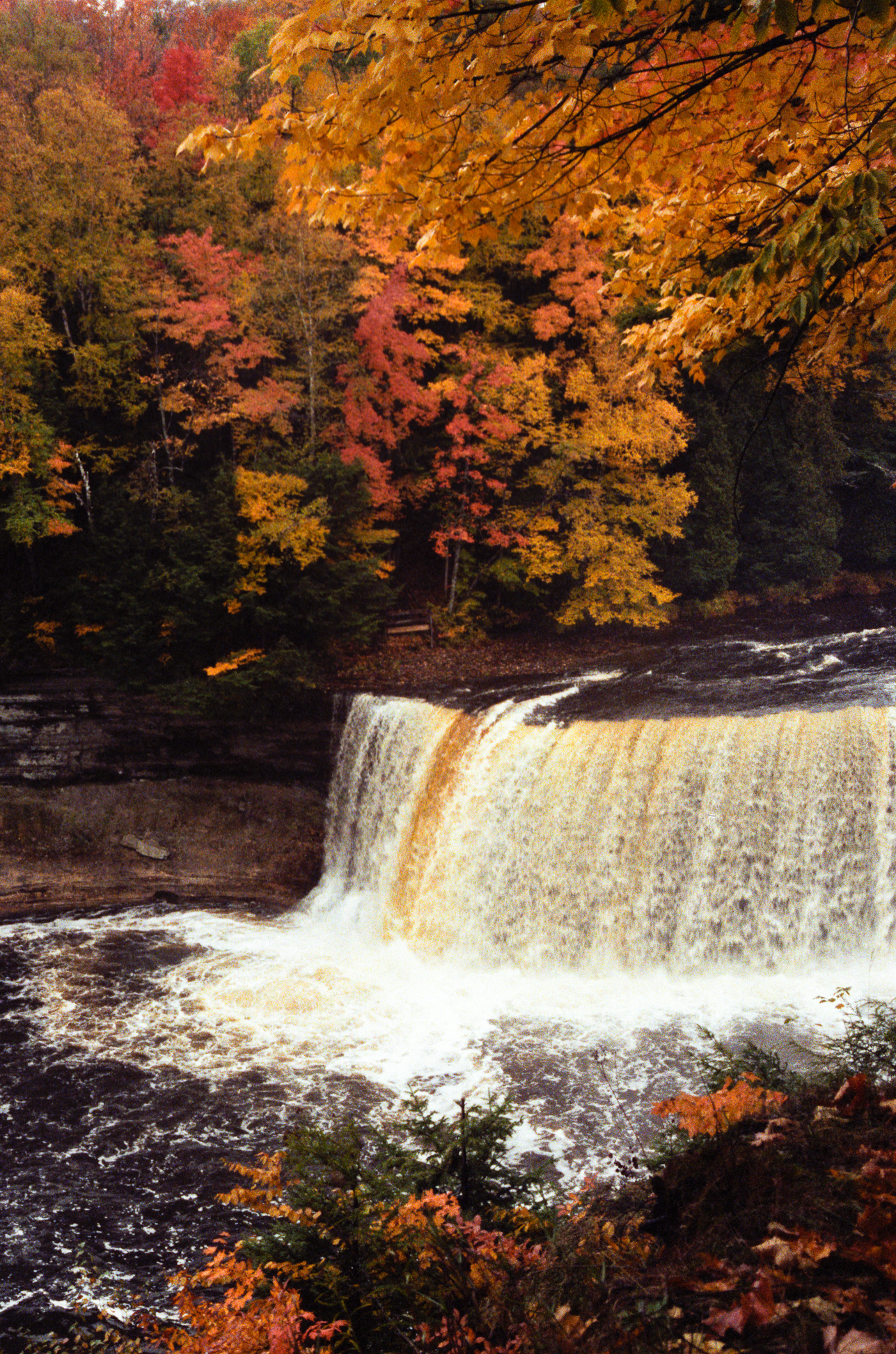 Upper Tahquamenon Falls We liked our pictures of the falls so much that we went back to repeat this shot during each of the other seasons. My dad has a collage of all four shots. We got some very nice pictures, plus it was a great excuse to go back up north and stay in Paradise. Curley's Motel, I think it was. Tahquamenon Falls State Park, Michigan. 1991